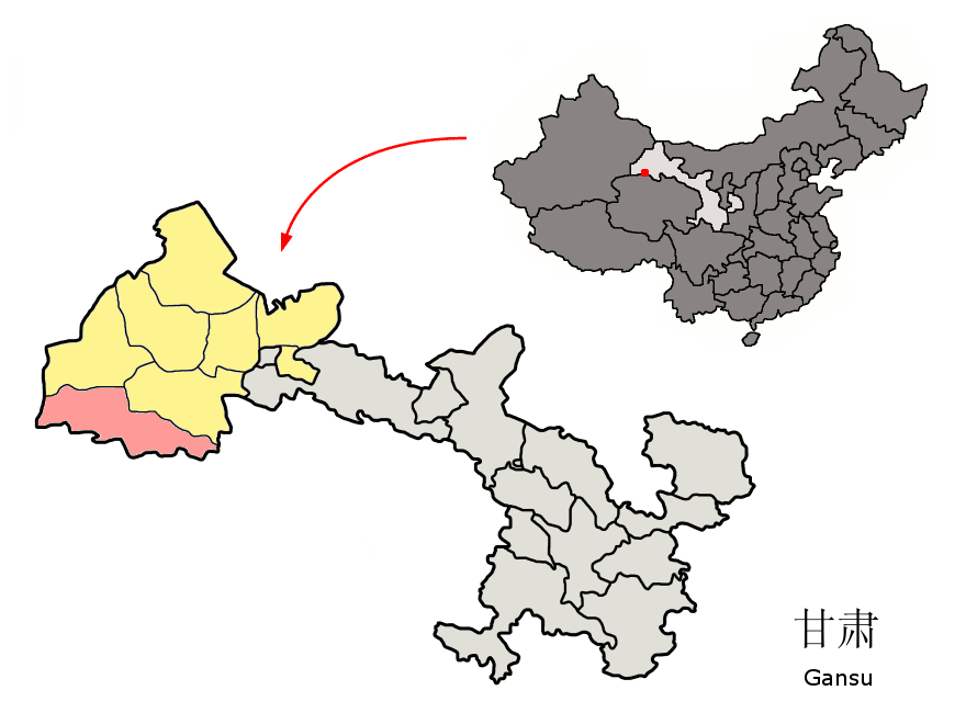 Location of Aksay County (pink) within Jiuquan Prefecture (yellow) and Gansu province of China Map drawn in september 2007 using various sources, mainly : Gansu province administrative regions GIS data: 1:1M, County level, 1990 Gansu Counties map from Jiuquan Prefecture map from .cn